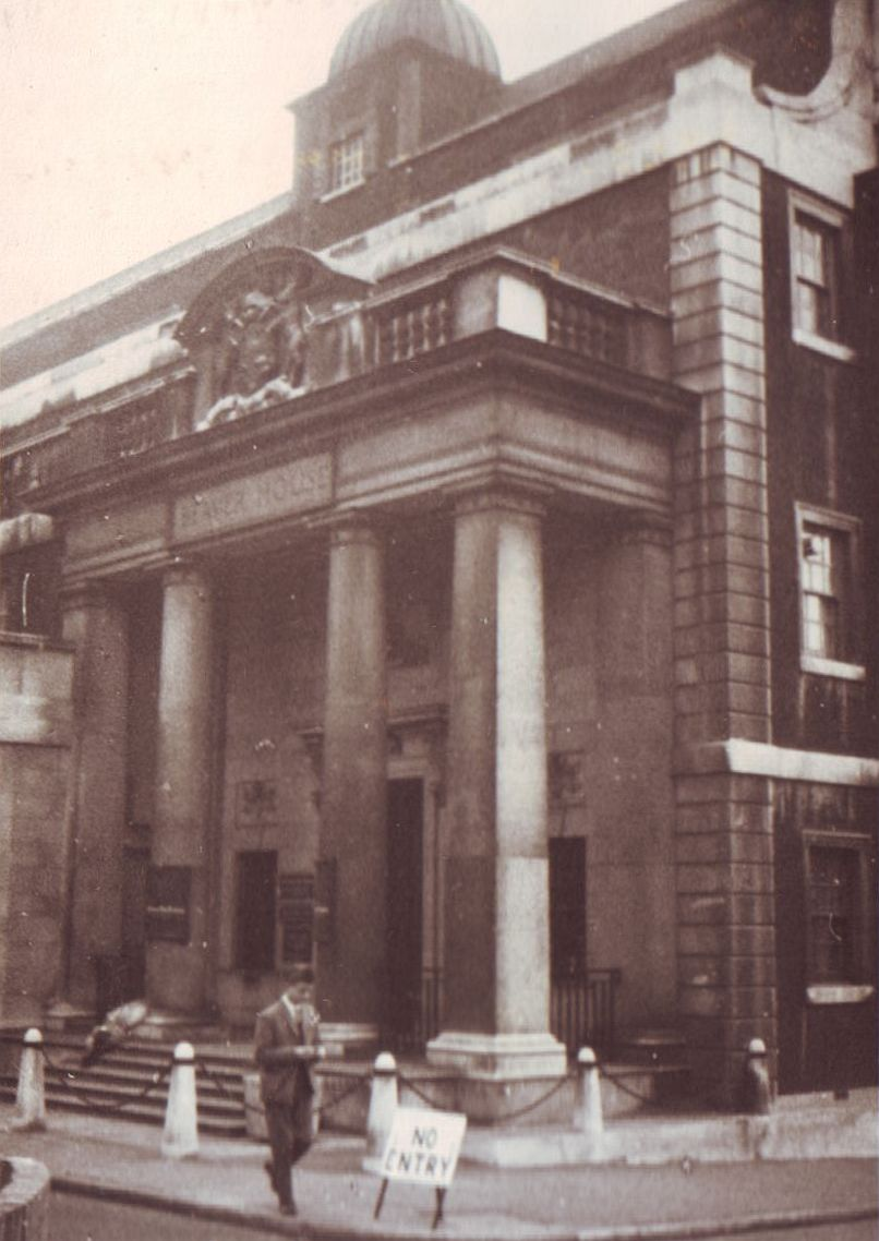 One of the photographs taken around or relating to the fur trade center Niddastrasse, Frankfurt am Main, Germany.